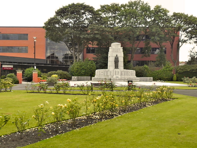 Heywood War Memorial & Memorial Garden, Data from Geograph: Description: SD8510 :: Heywood War Memorial & Memorial Garden, near to Heywood, Rochdale, Great Britain ICBM: 53.592406937942, -2.2187257619733 Location: (about 1 km from) near to Heywood, Rochdale, Great Britain.